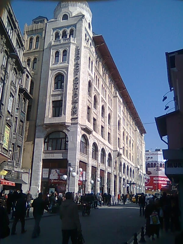 Istanbul 4th Vakıf Han seen from west